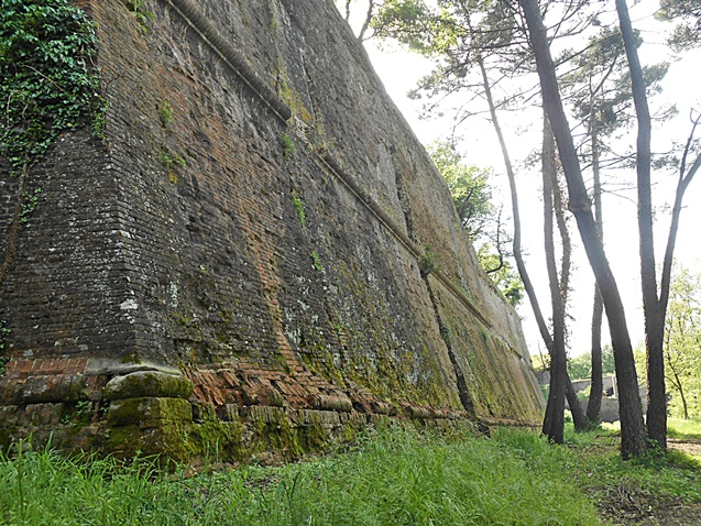 perimeter